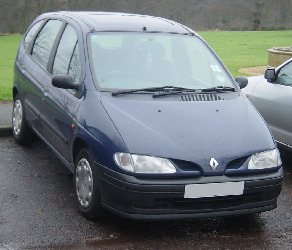 created by Mazurka